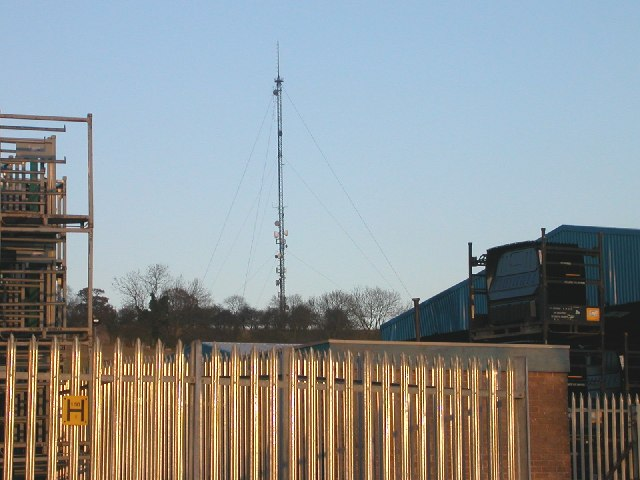 Daventry. High March Industrial Estate. BBC Transmitter can be seen in north east corner of this Square.